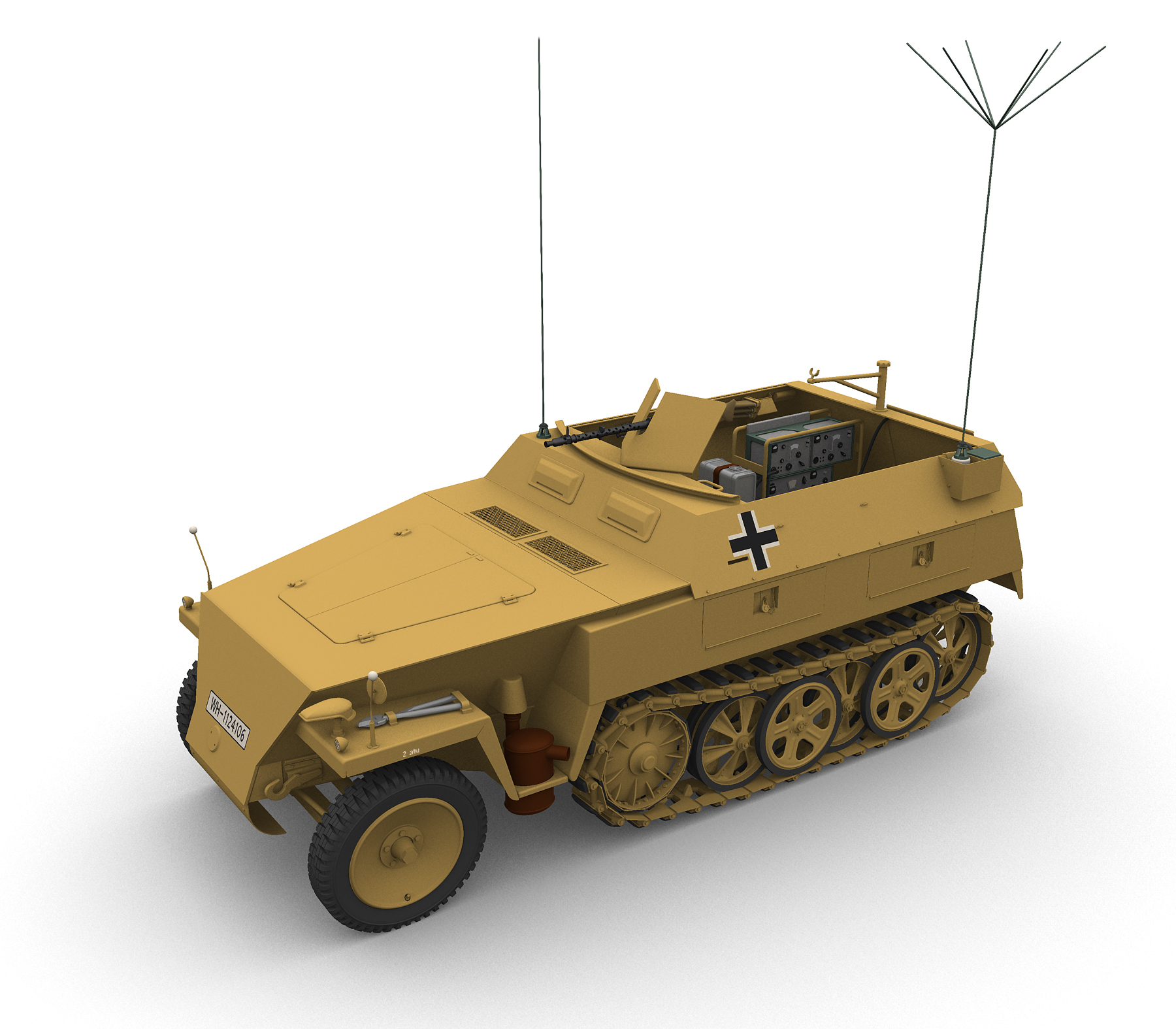 German armored personnel carrier: Sd.Kfz. 250/3 I (neu). 3D model, perspective view.